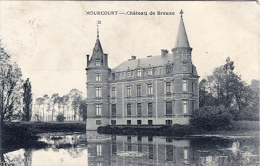 Postcard, dated 9.6.1917. Title: "Mourcourt - Breuze Castle".